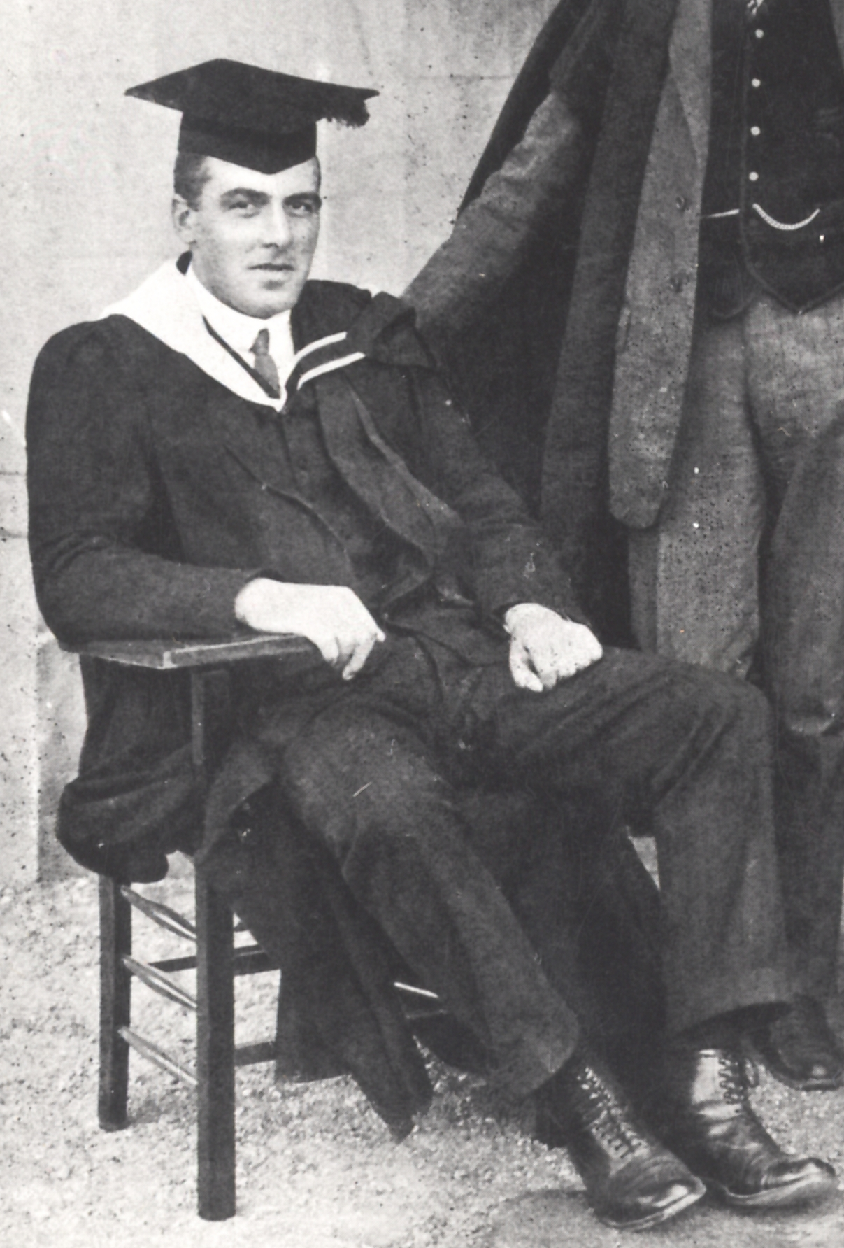 UQFL466 AL P 54 - Professor John Lundie Michie (classics), 3 April 1911, at University of Queensland (then at Old Government House)